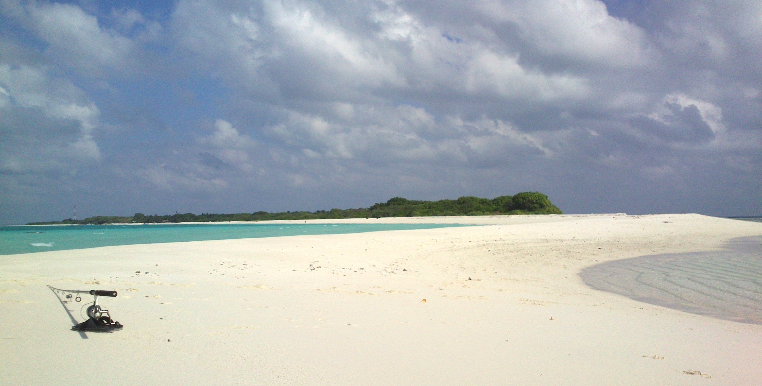 This is a picture of the white sands of Ha.Vashafaru